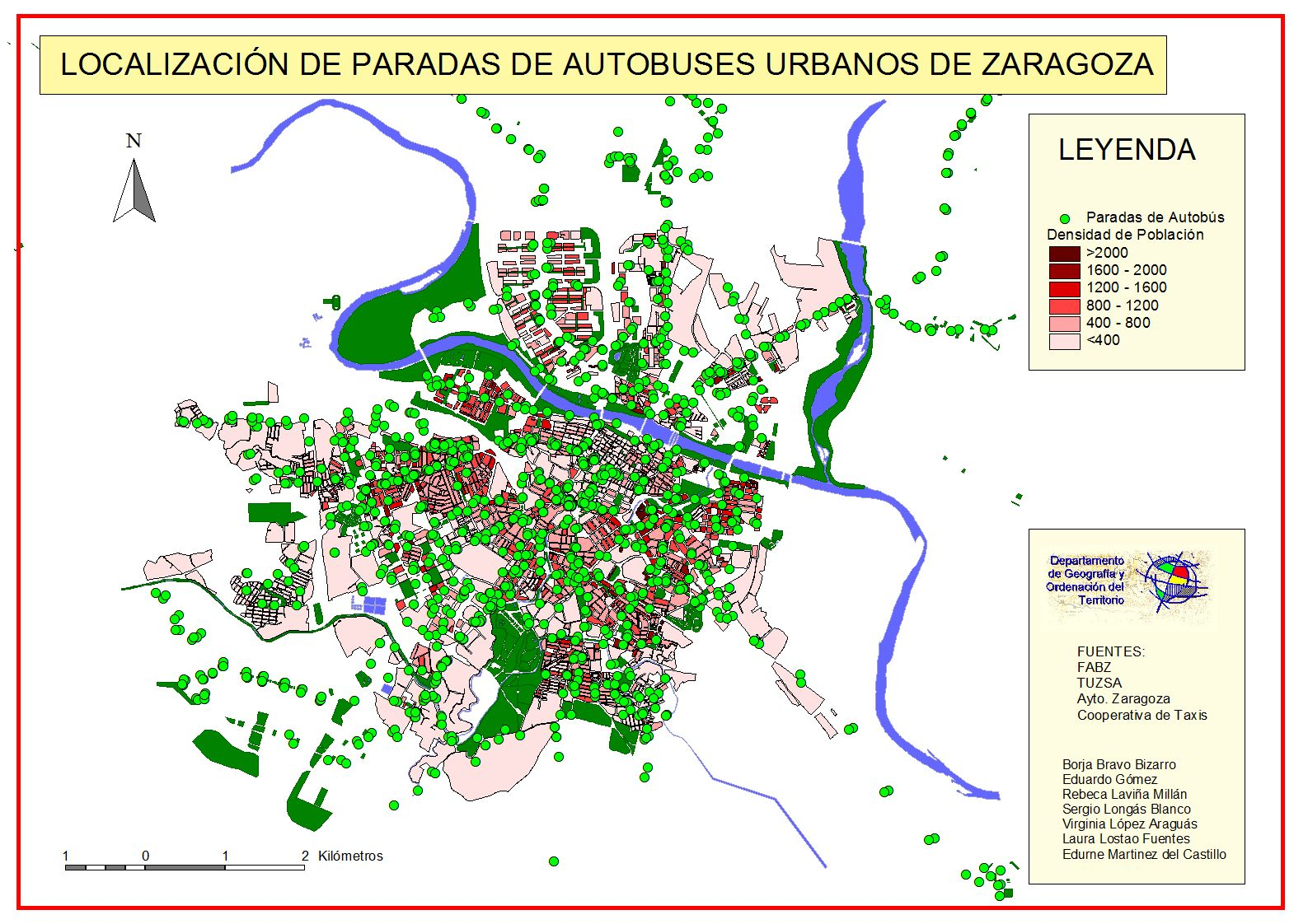 Bus stop of Zaragoza.